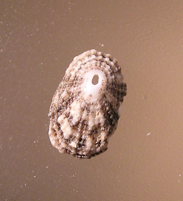 Diodora rueppellii (G.B. Sowerby I, 1835) , a keyhole limpet from the family Fissurellidae; Malaga, Spain